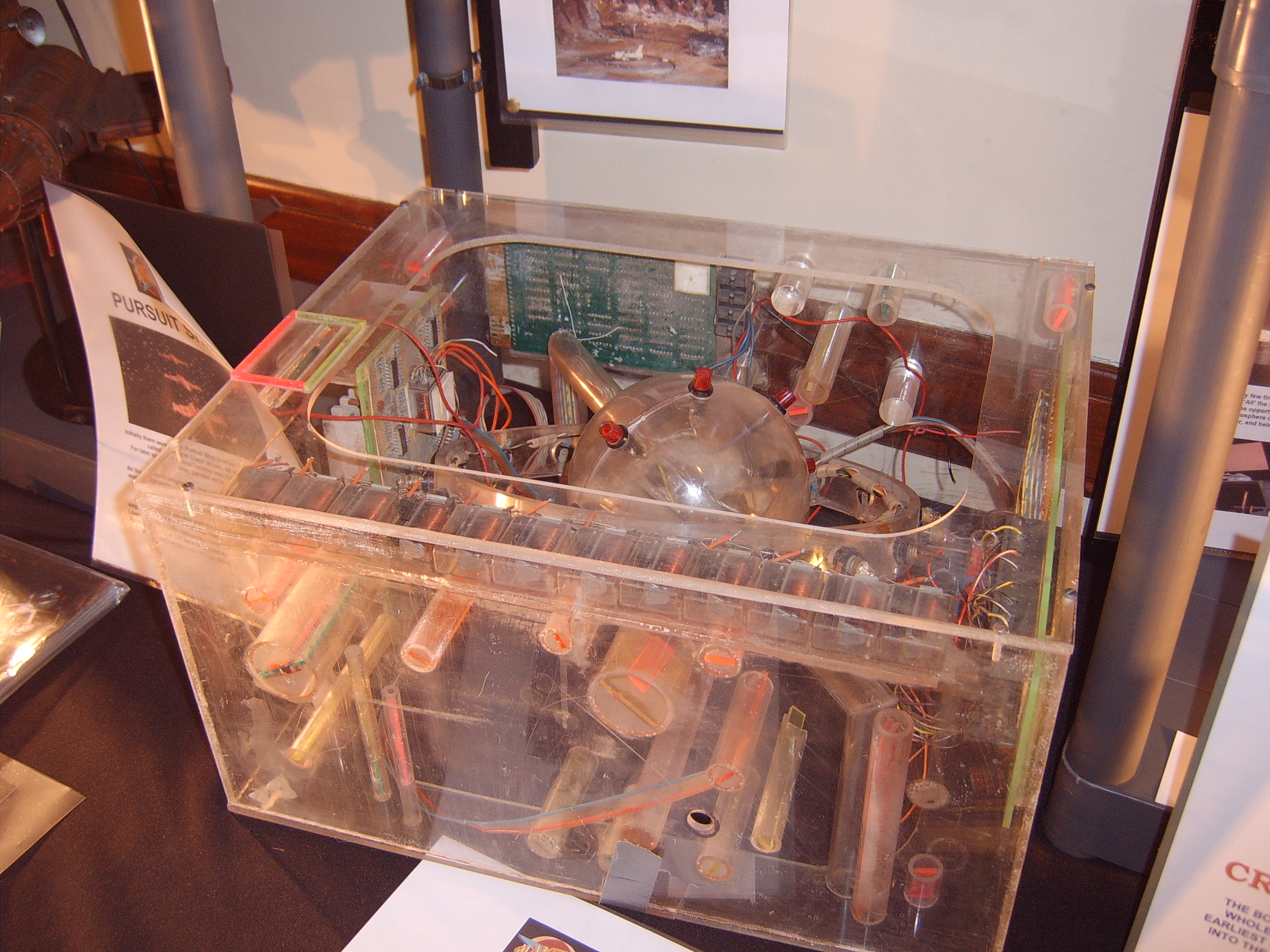 Photograph of Orac, from the BBC television series Blakes 7. Taken at Concussion, the 2006 Eastercon.